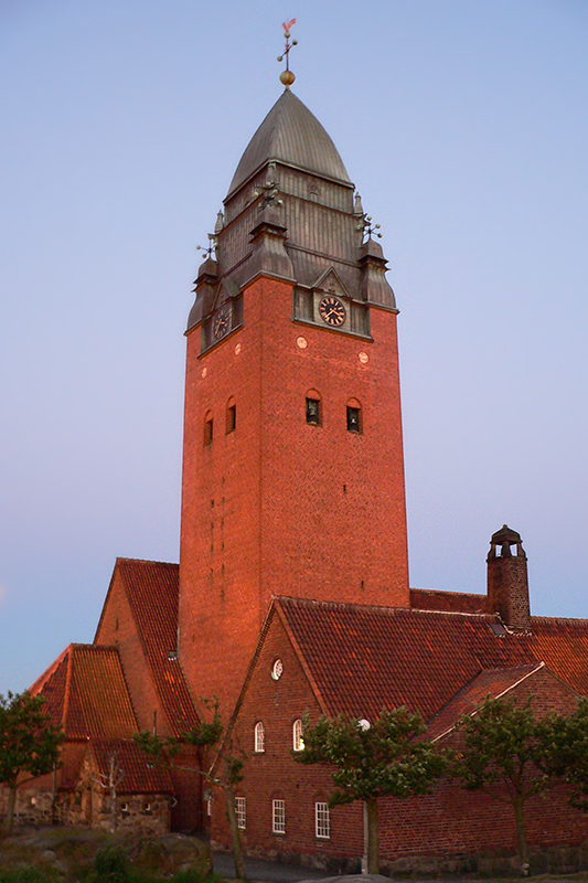 Photo taken around sunrise